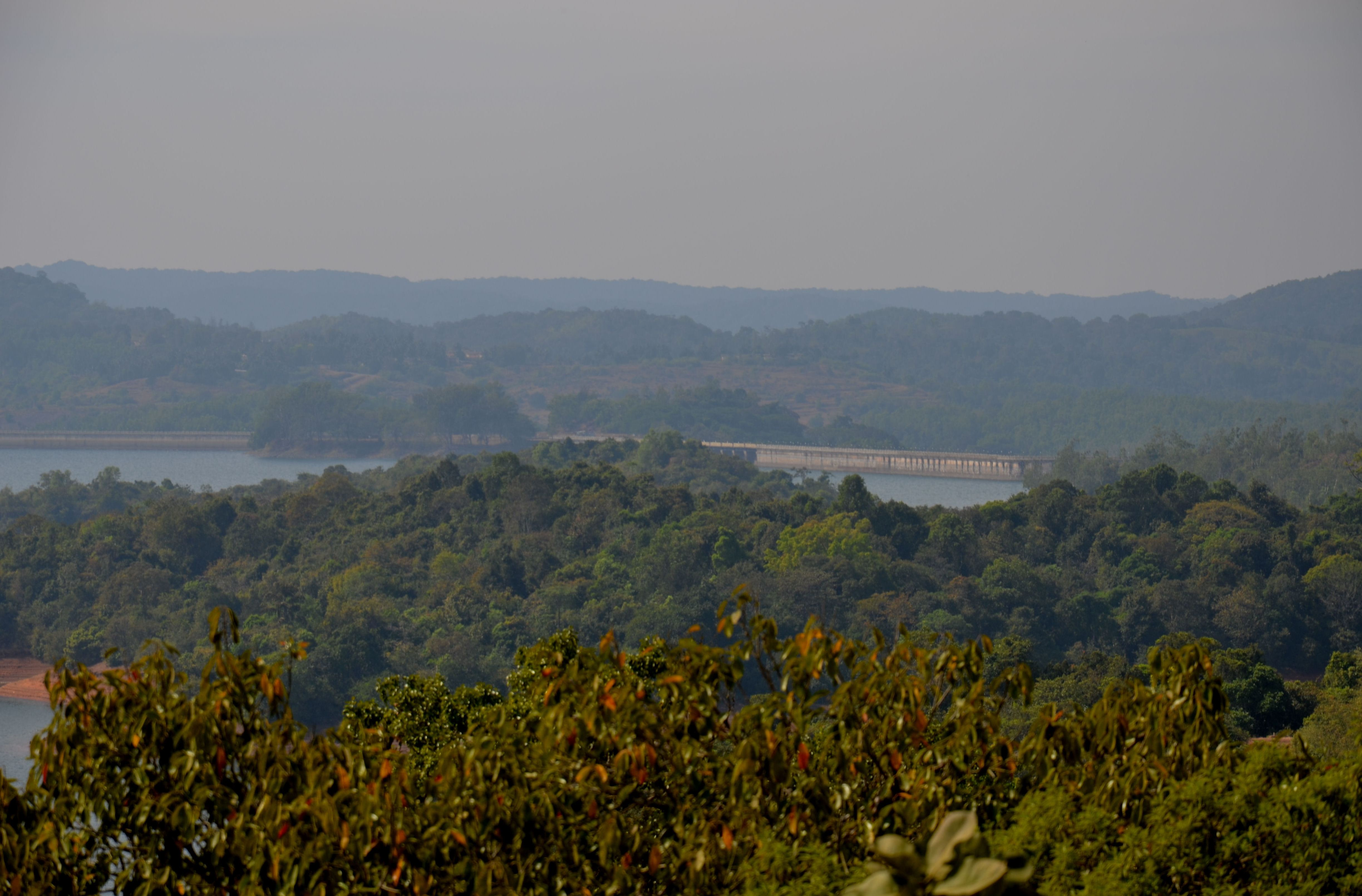 These pics were taken at Honnemaradu